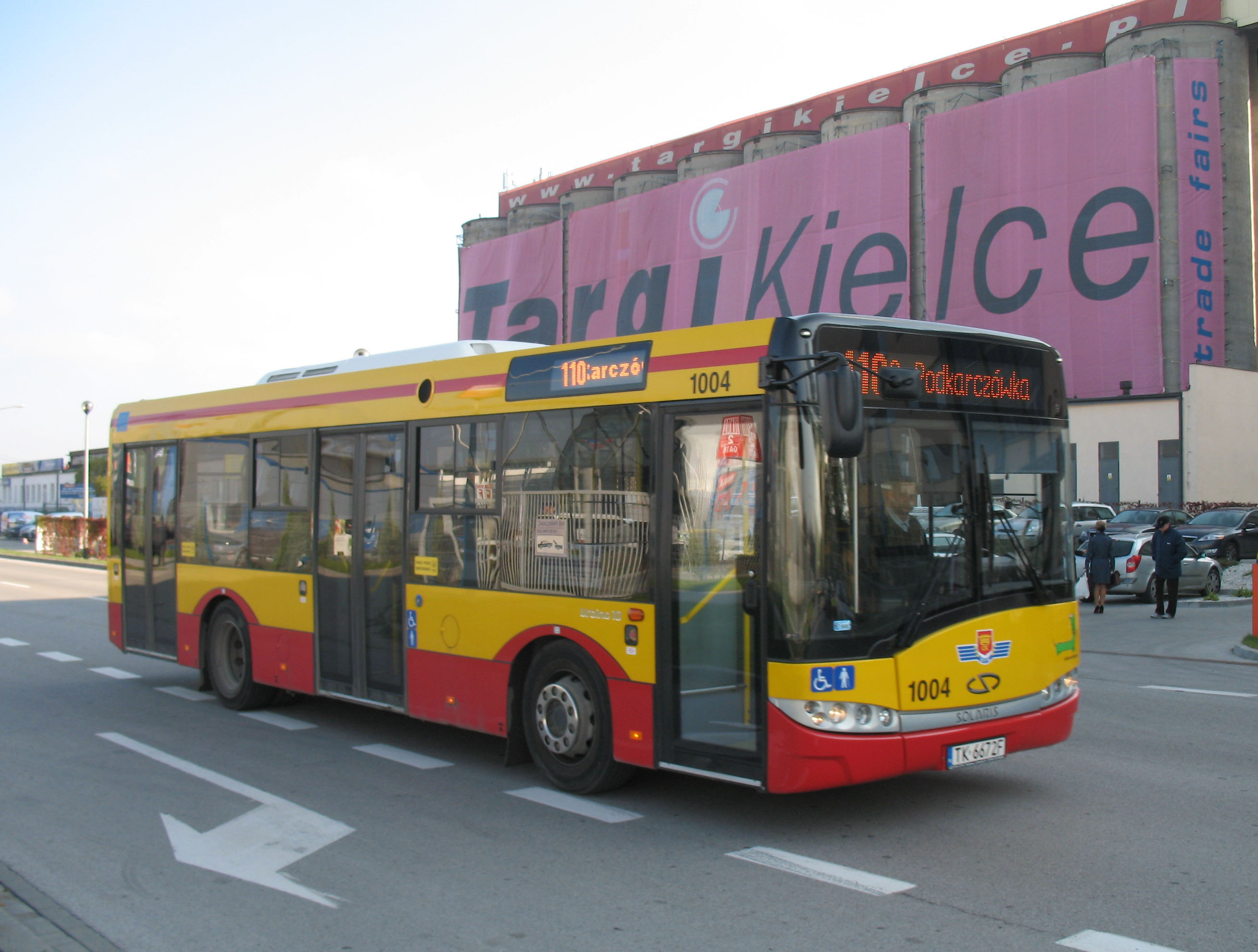 Solaris Urbino 10 bus (#1004) in Kielce, Poland. Built 2010, MPK Kielce operator.